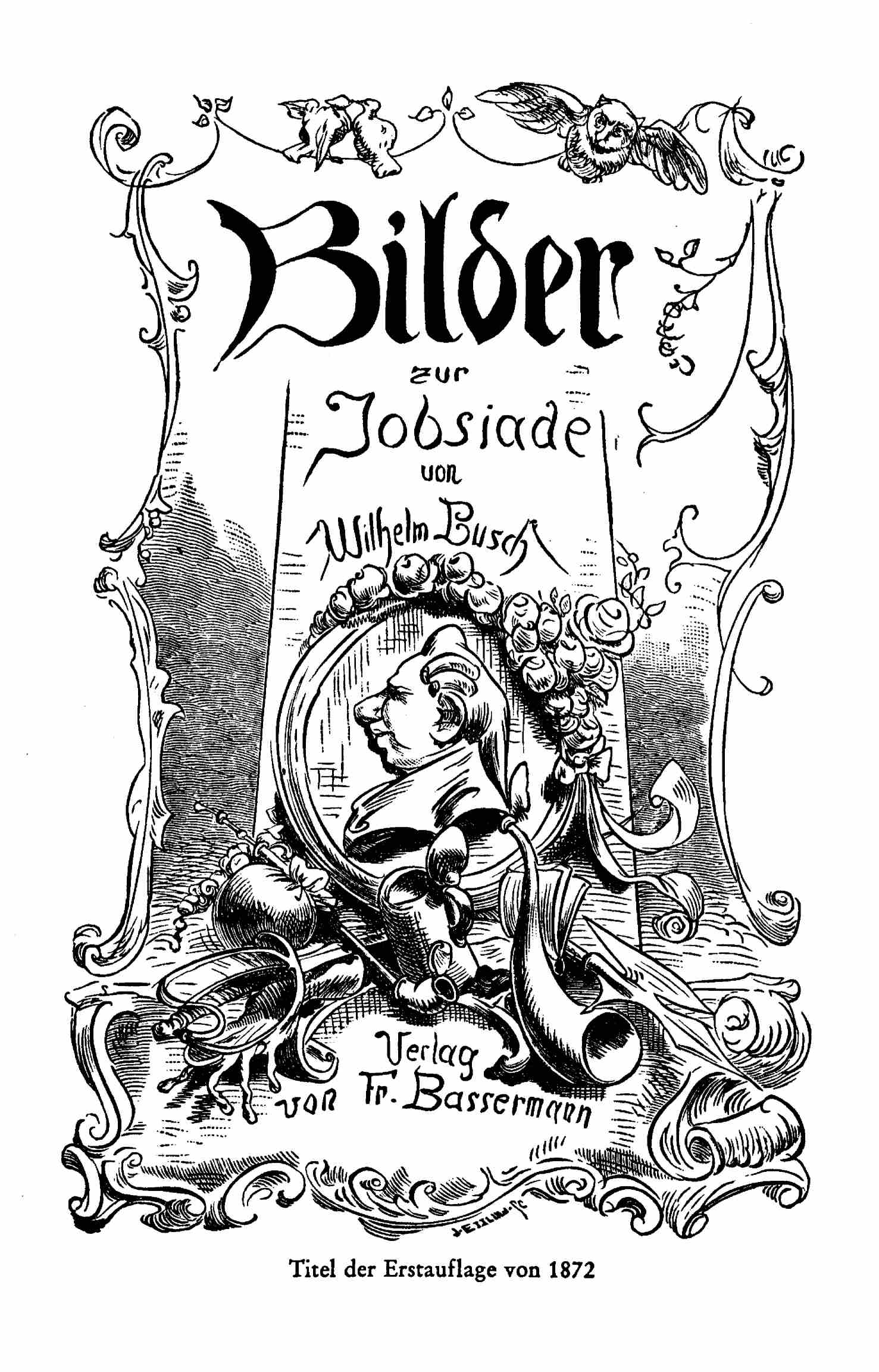 This is a scan of the historical document